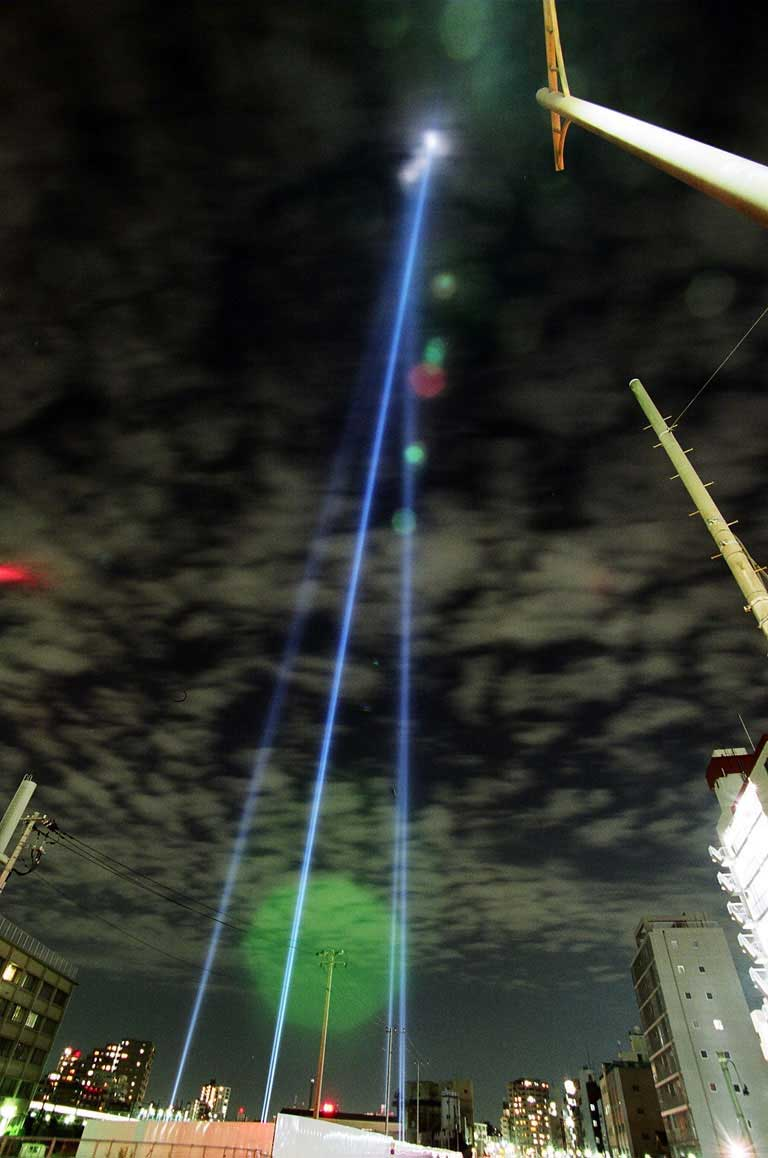 Searchlight demonstrates the height of 610m on the planning ground site of tentatively callede New Tokyo Tower (later named to Tokyo Sky Tree) in night of 6 October 2007.